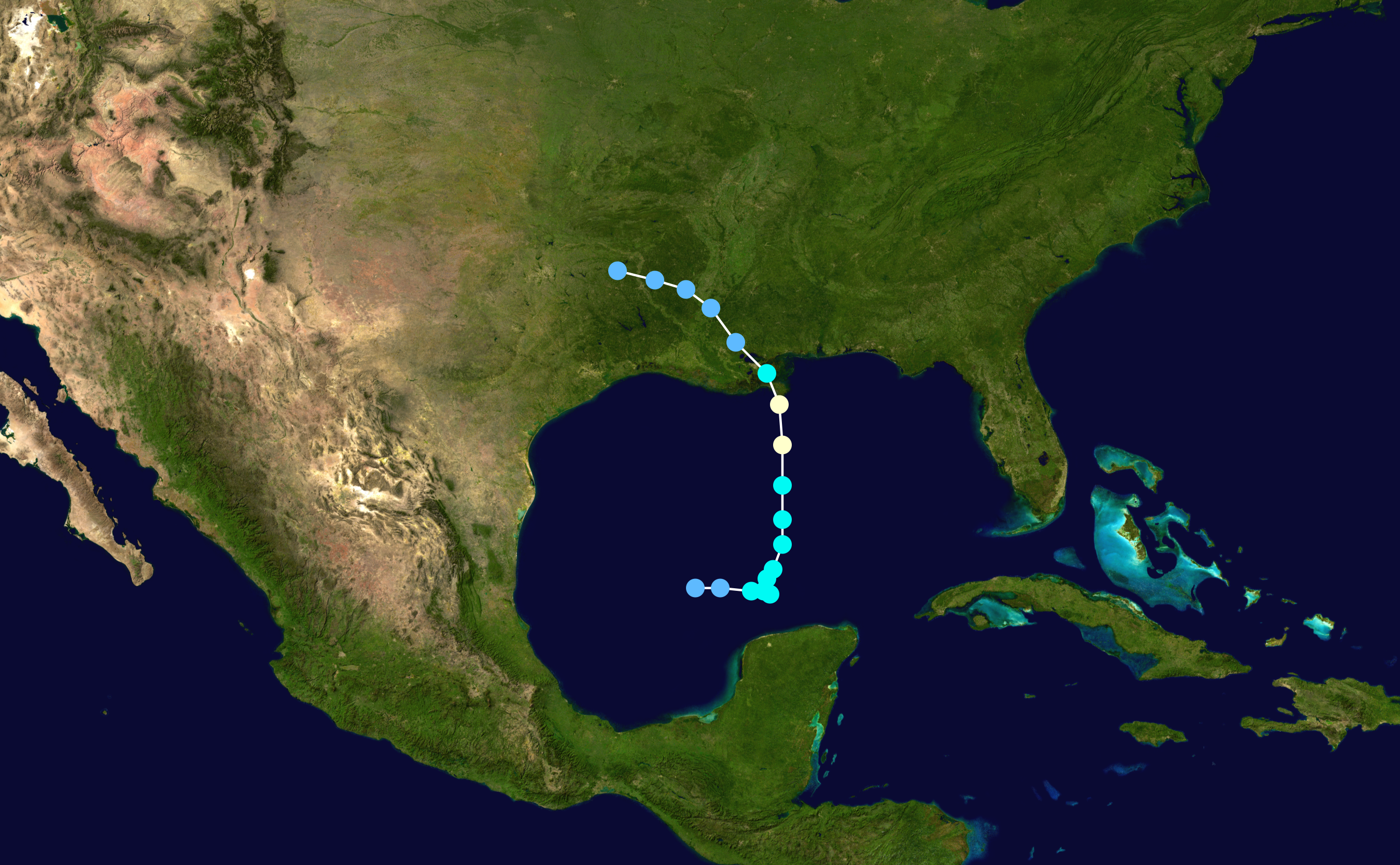 Hurricane Florence (1988) track. Uses the color scheme from the Saffir-Simpson Hurricane Scale.